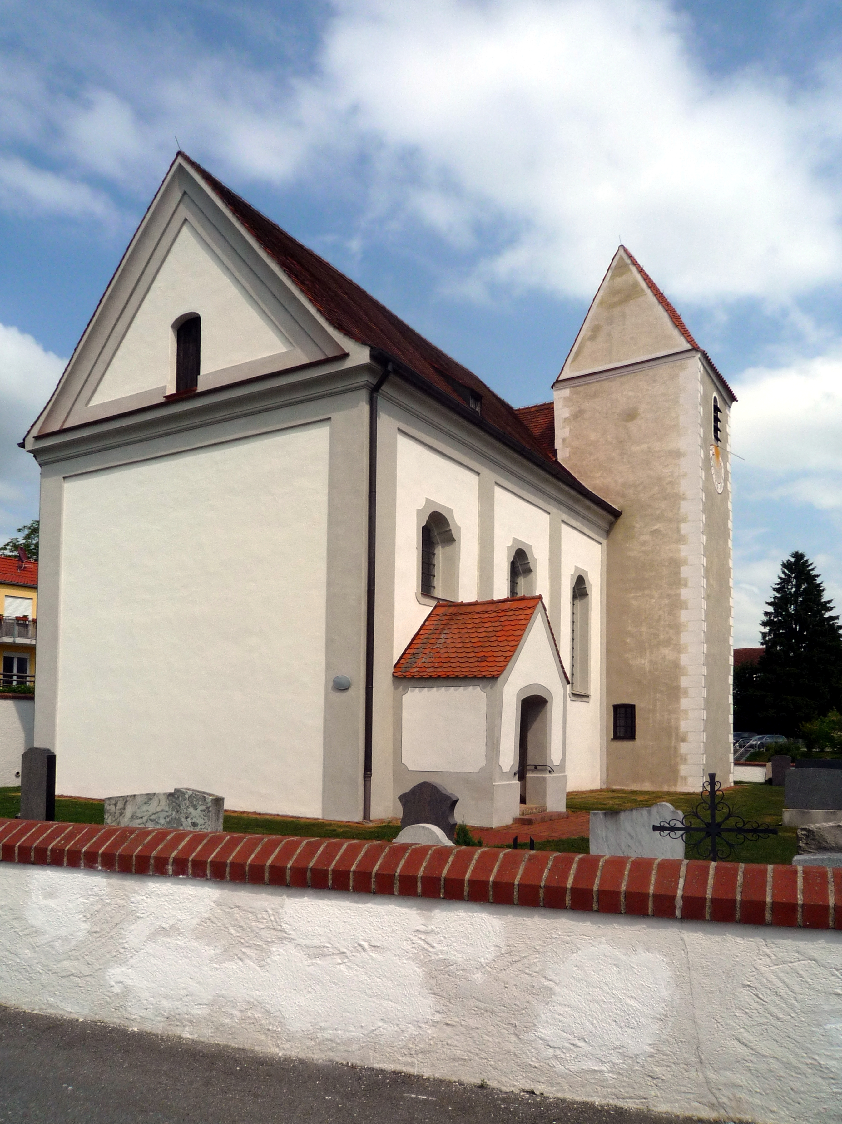 Church in Altenhausen near Freising